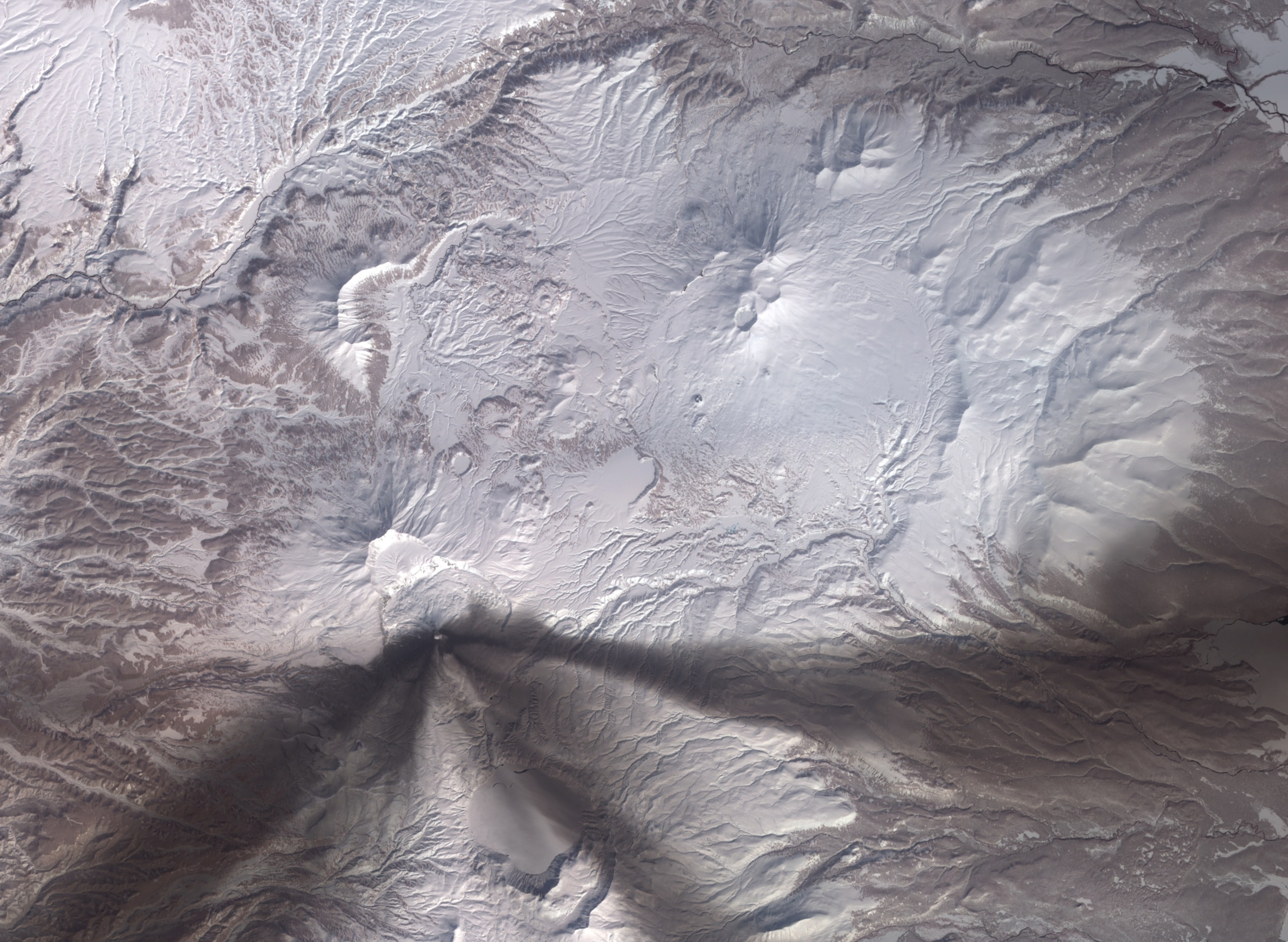 Image of the area around the Karymsky volcano. In this image, volcanic ash from earlier eruptions has settled onto the snowy landscape, leaving dark grey swaths. The ash stains are confined to the south of the volcano’s summit, one large stain fanning out toward the south-west, and another toward the east. At first glance, the ash stain toward the east appears to form a semicircle north of the volcano and sweep